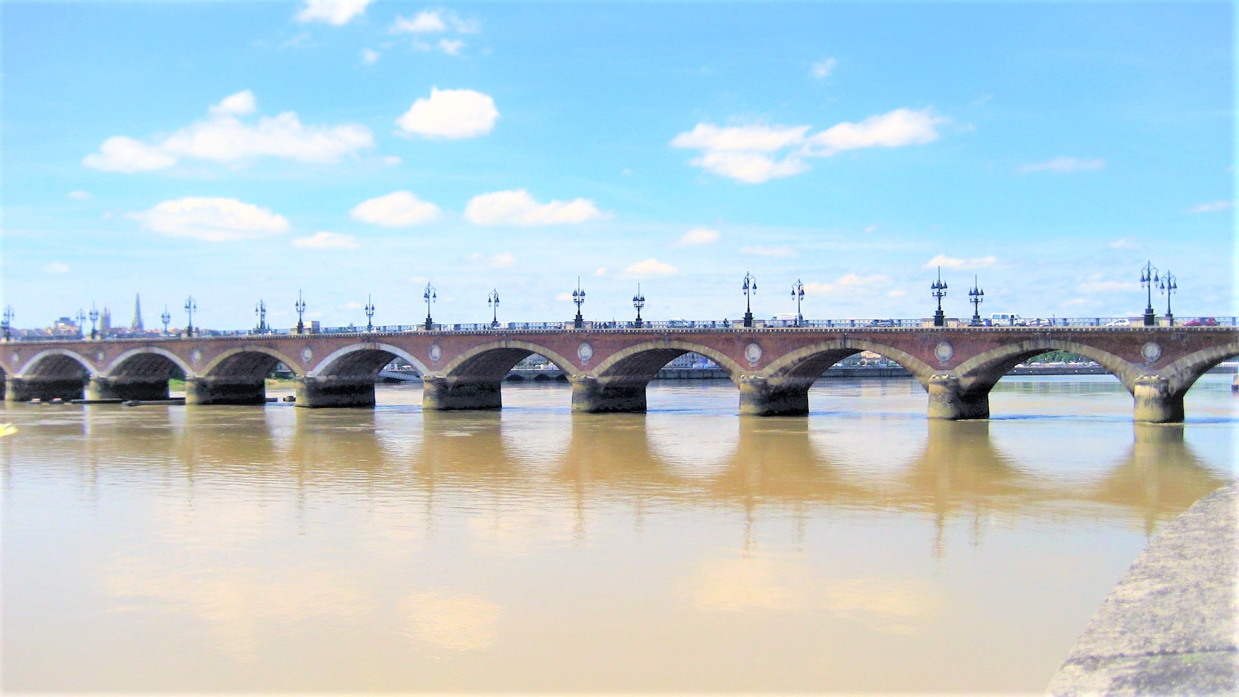 Bordeaux, The stone bridge over the river Garonne Bordeaux, Le pont de Pierre sur la Garonne